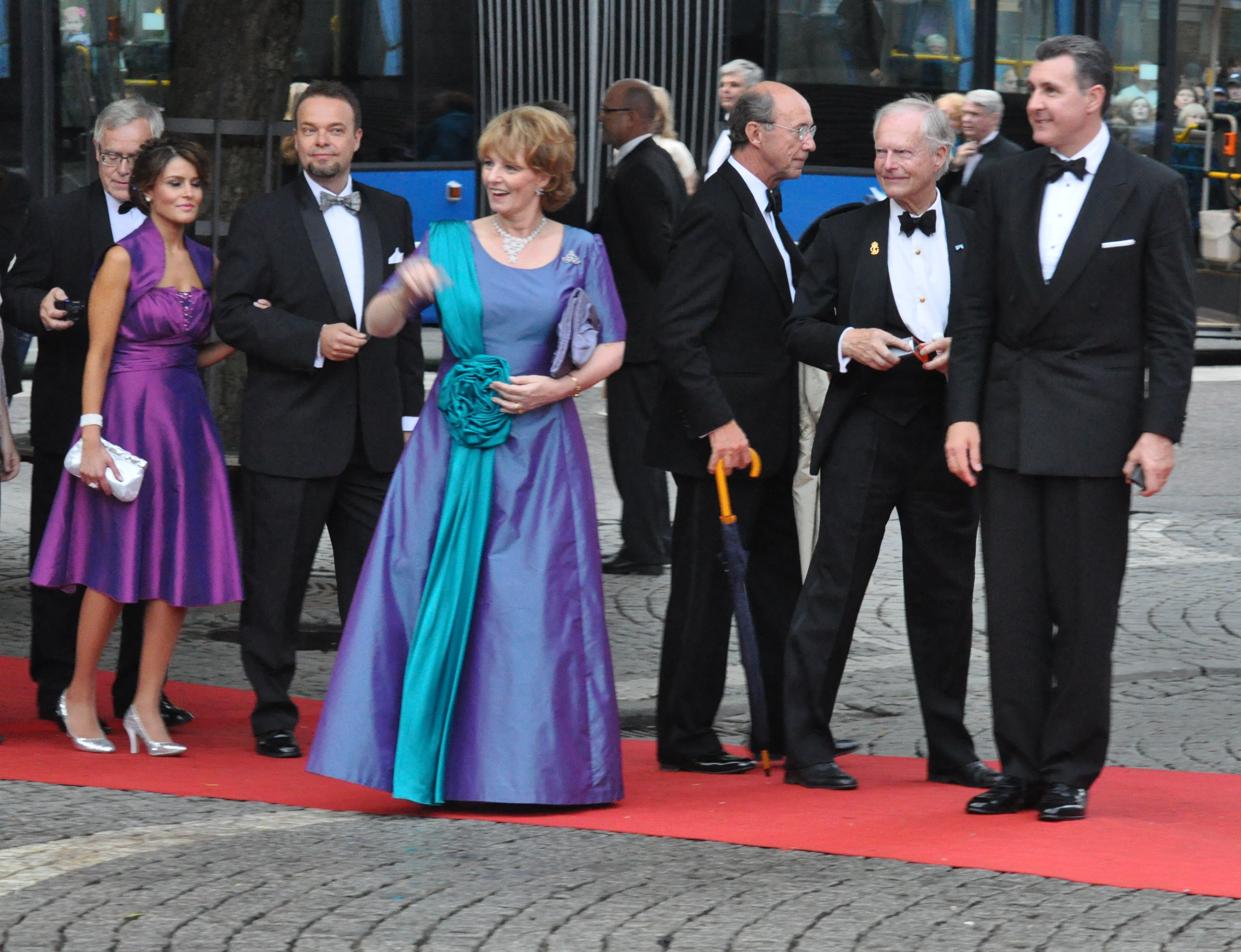 Wedding of Victoria, Crown Princess of Sweden, and Daniel Westling; Arrival of members for the Gouvernment and Swedish and foreign guests of hounour to the Riksdag's Gala Performance at Konserthuset